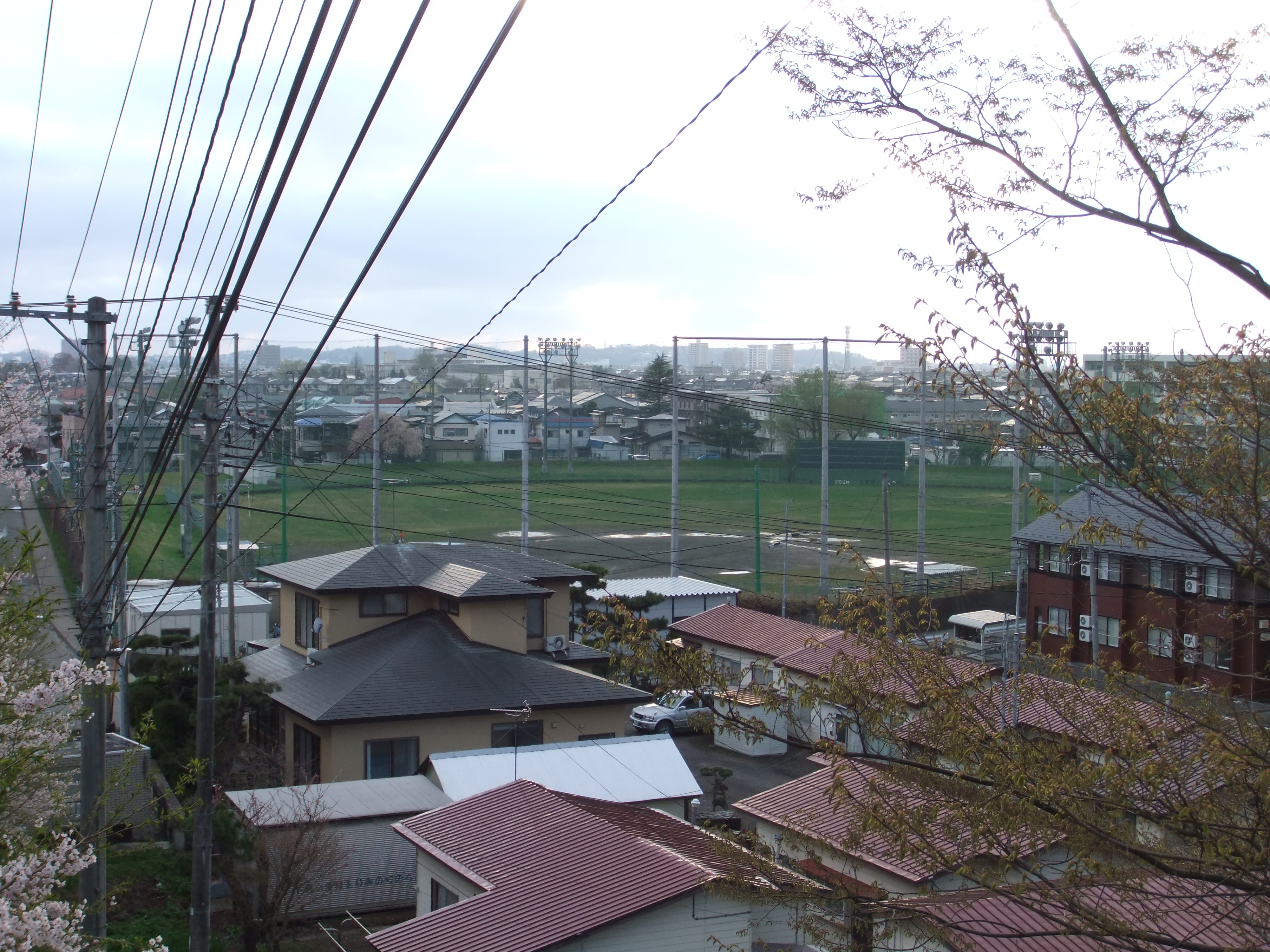 Akita university baseball ground